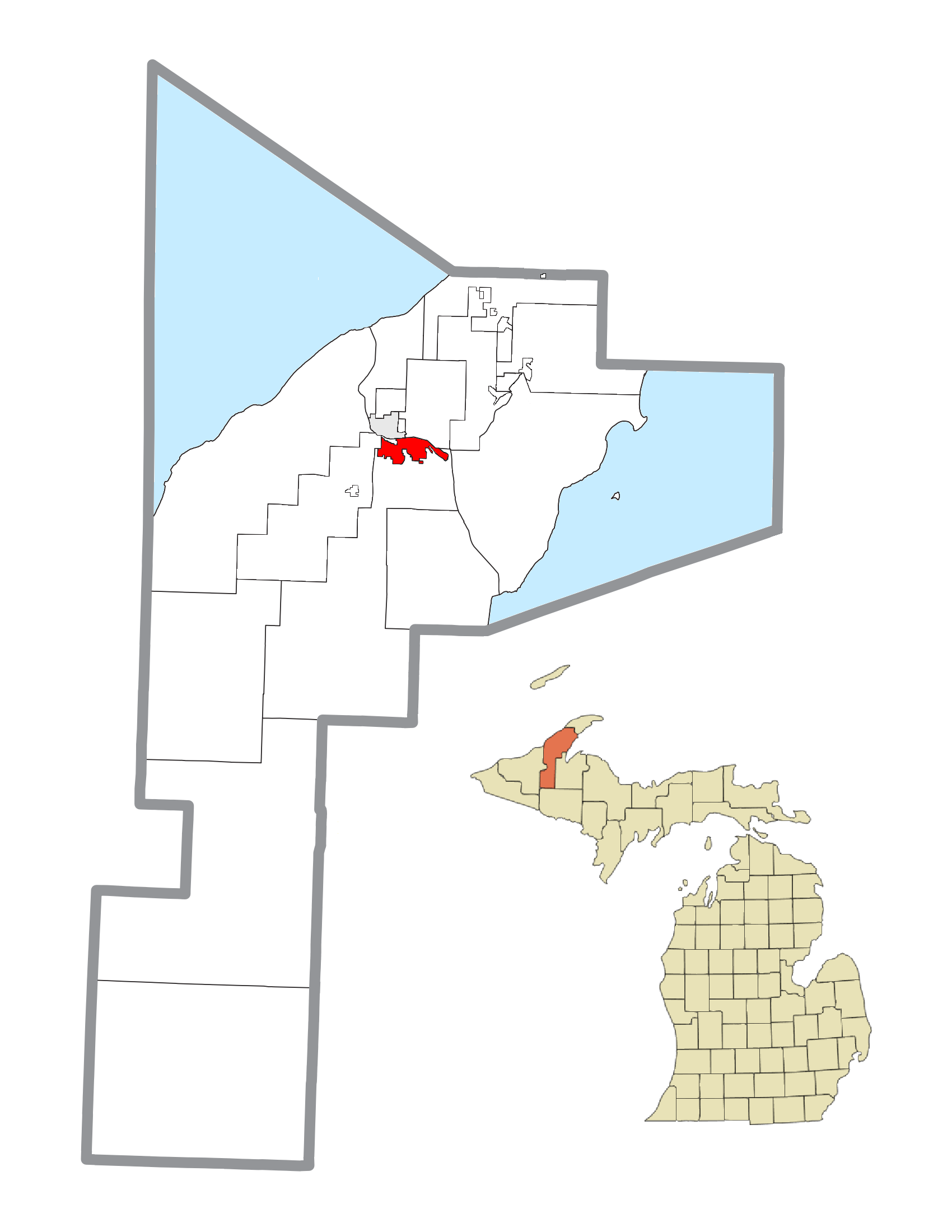 Houghton, MI